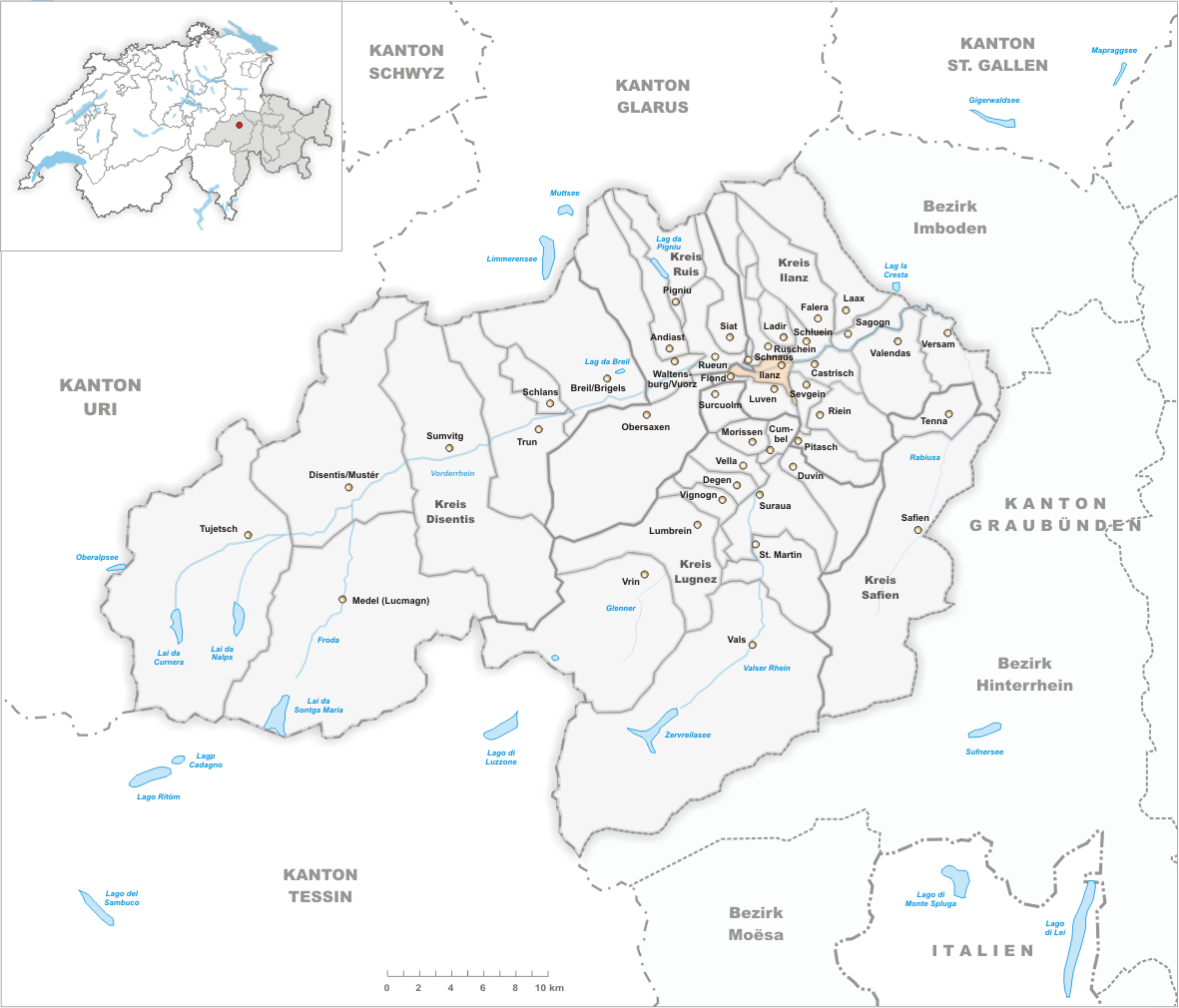 Municipality Ilanz